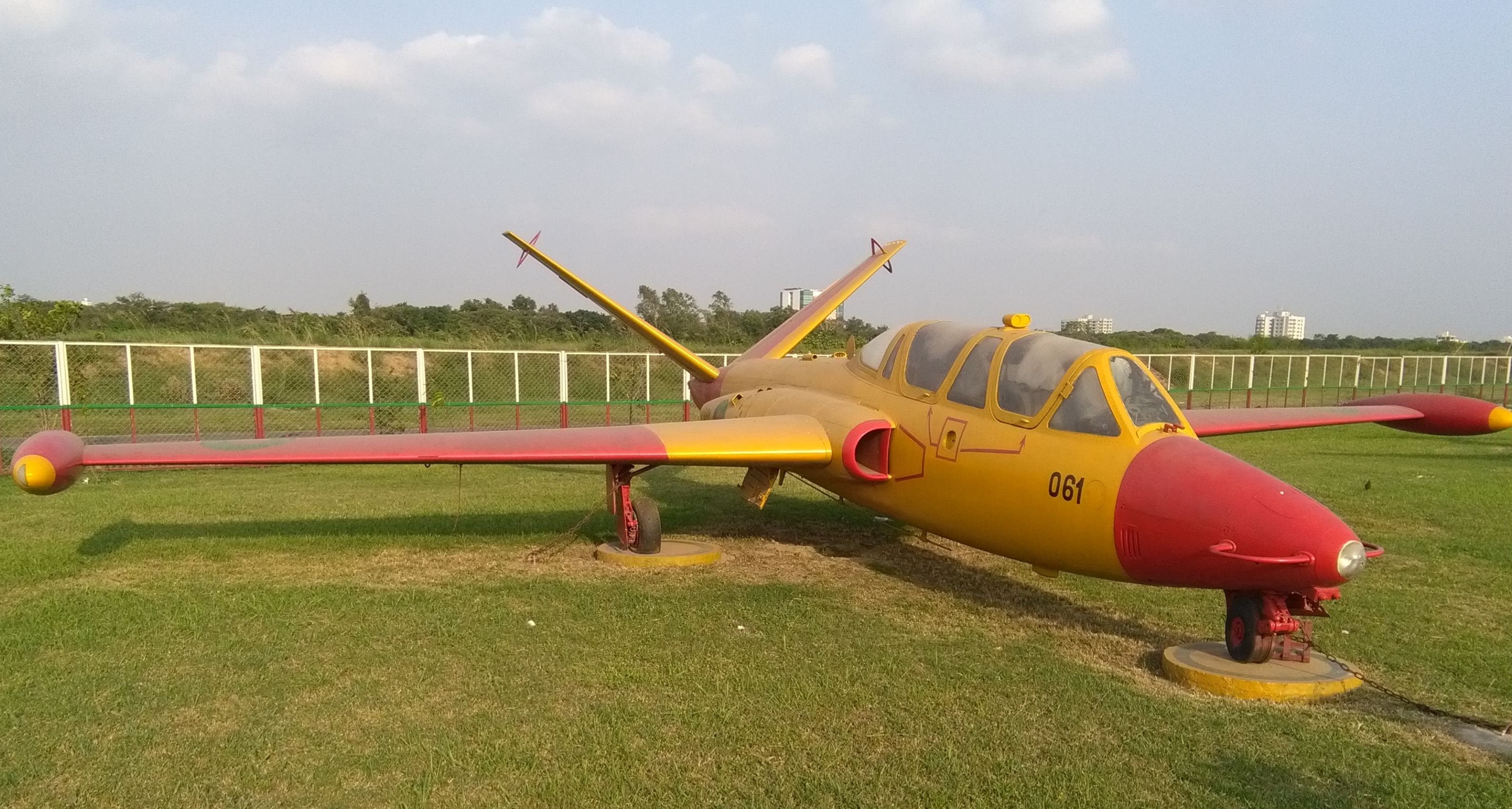 Bangladesh Air Force Museum